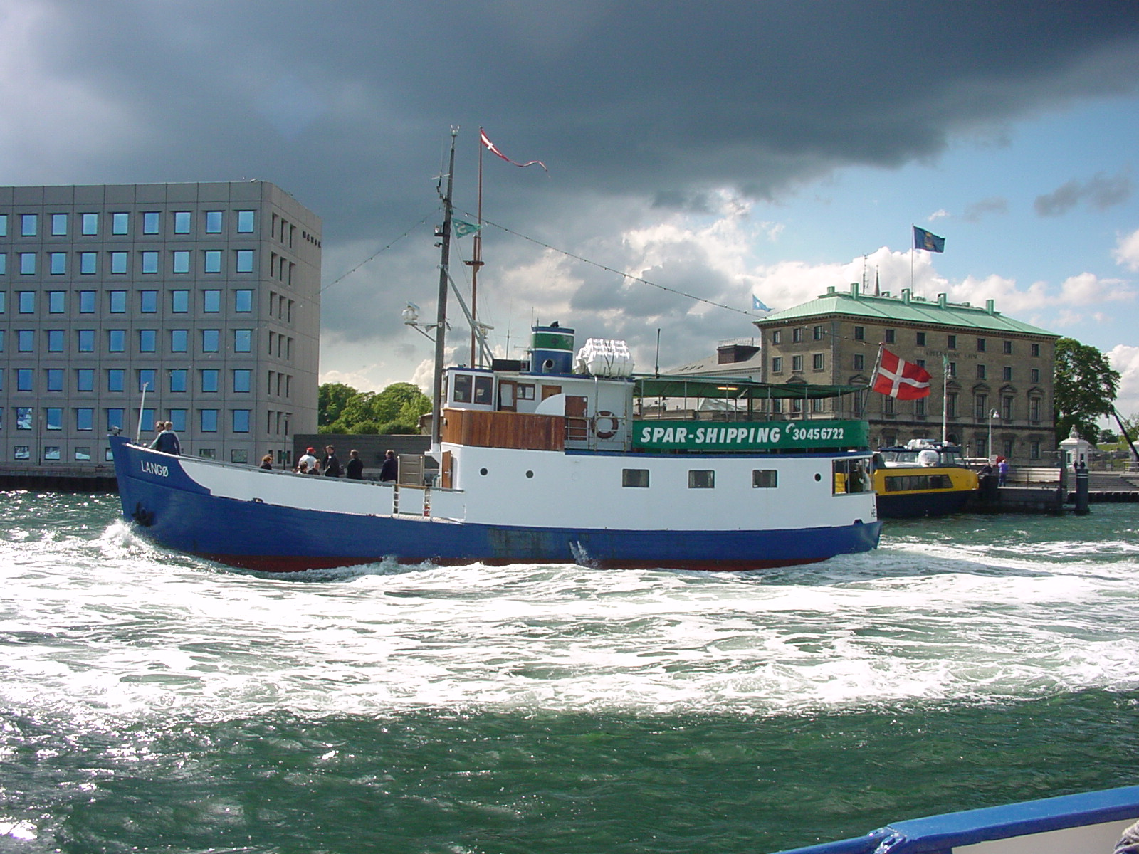 Copenhagen Port. To the left the main office building of Maersk Line.